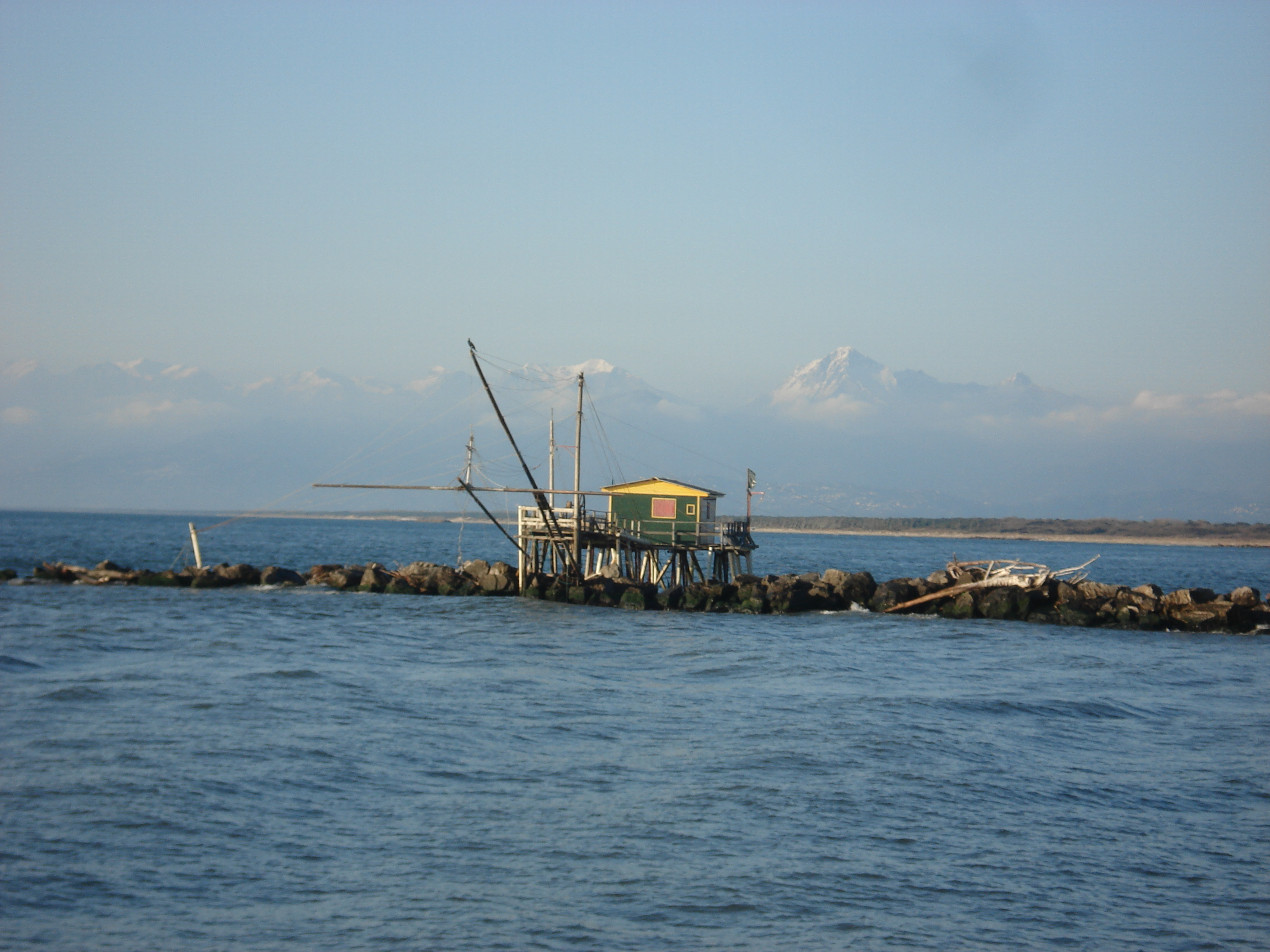 Typical wood structure in Bocca d'Arno, in Pisa, Italy.